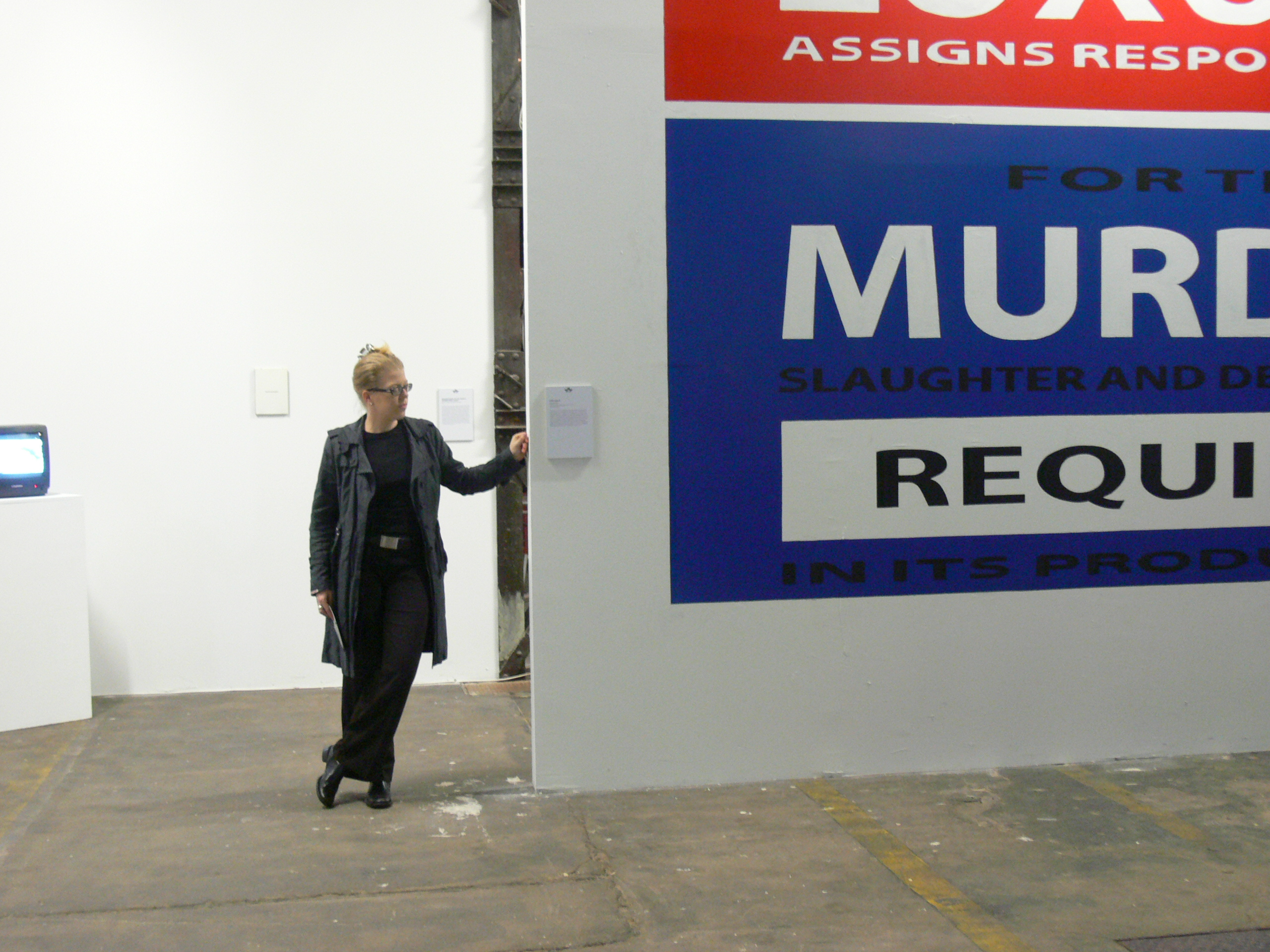 Inke Arns, The wonderful world of irational, dortmund 2006